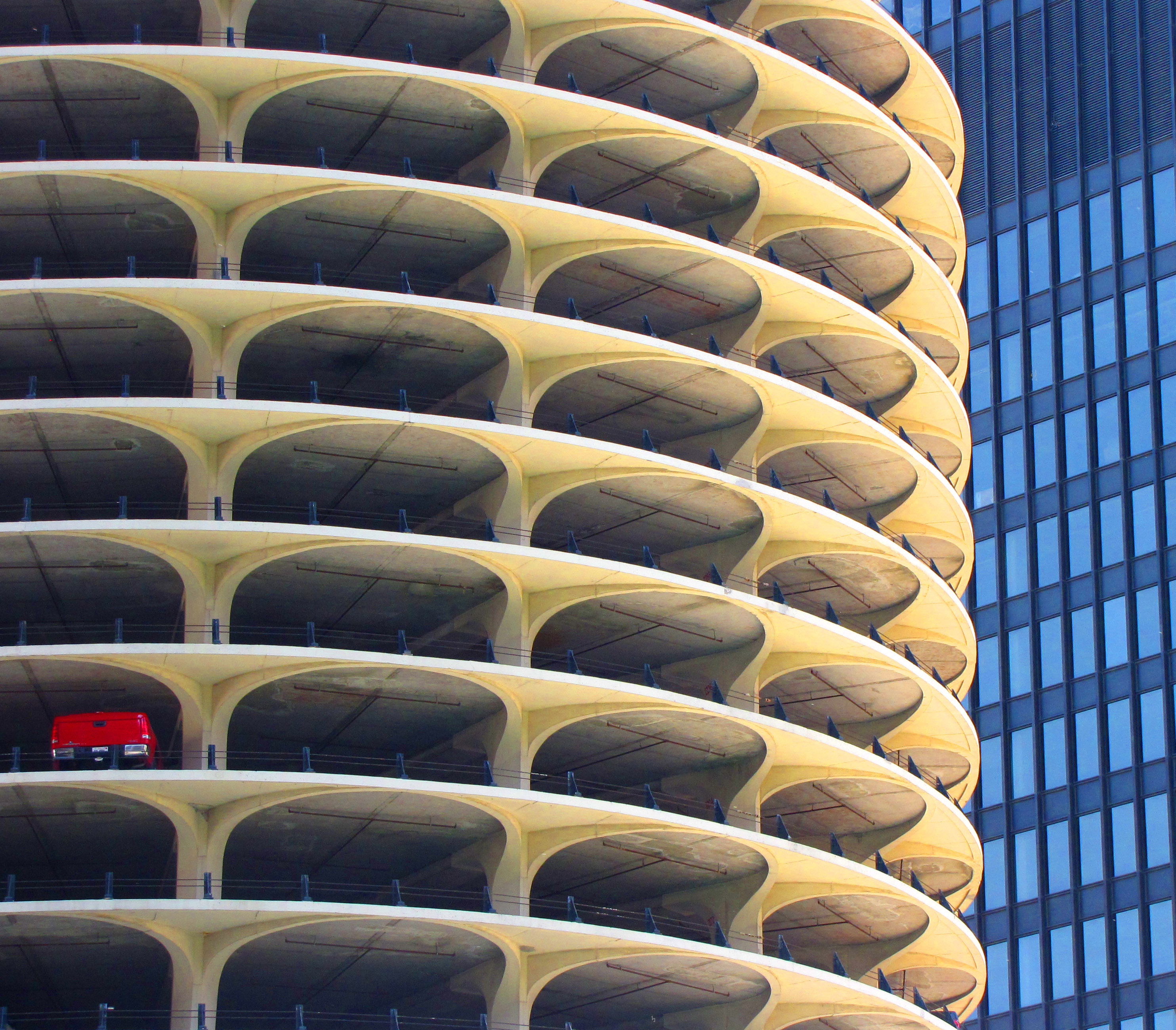 Explore #163 June 20, 2009 This picture was featured on the "Your Best Shot 2009 Architecture" flickr blog, Marina City is a mixed-use residential/commercial tower complex designed by Bertrand Goldberg and completed in 1964. The lower floors, pictured here, are parking decks. It is even today strikingly different than everything else around it, with its interesting curvy and cylindrical corn-cob style. I find it fascinating for I like curvy buildings, as my photostream demonstrates. I also found the sharp contrast here between this building and the one next to it (in the background to the right) irresistable -- curves and arches vs. straight-lines and squares, warm yellowish-white vs. cool blue, and smooth glass vs. rough concrete. Plus I found it quite curious in a traffic-congested city that this building with numerous parking levels had only one parked car.